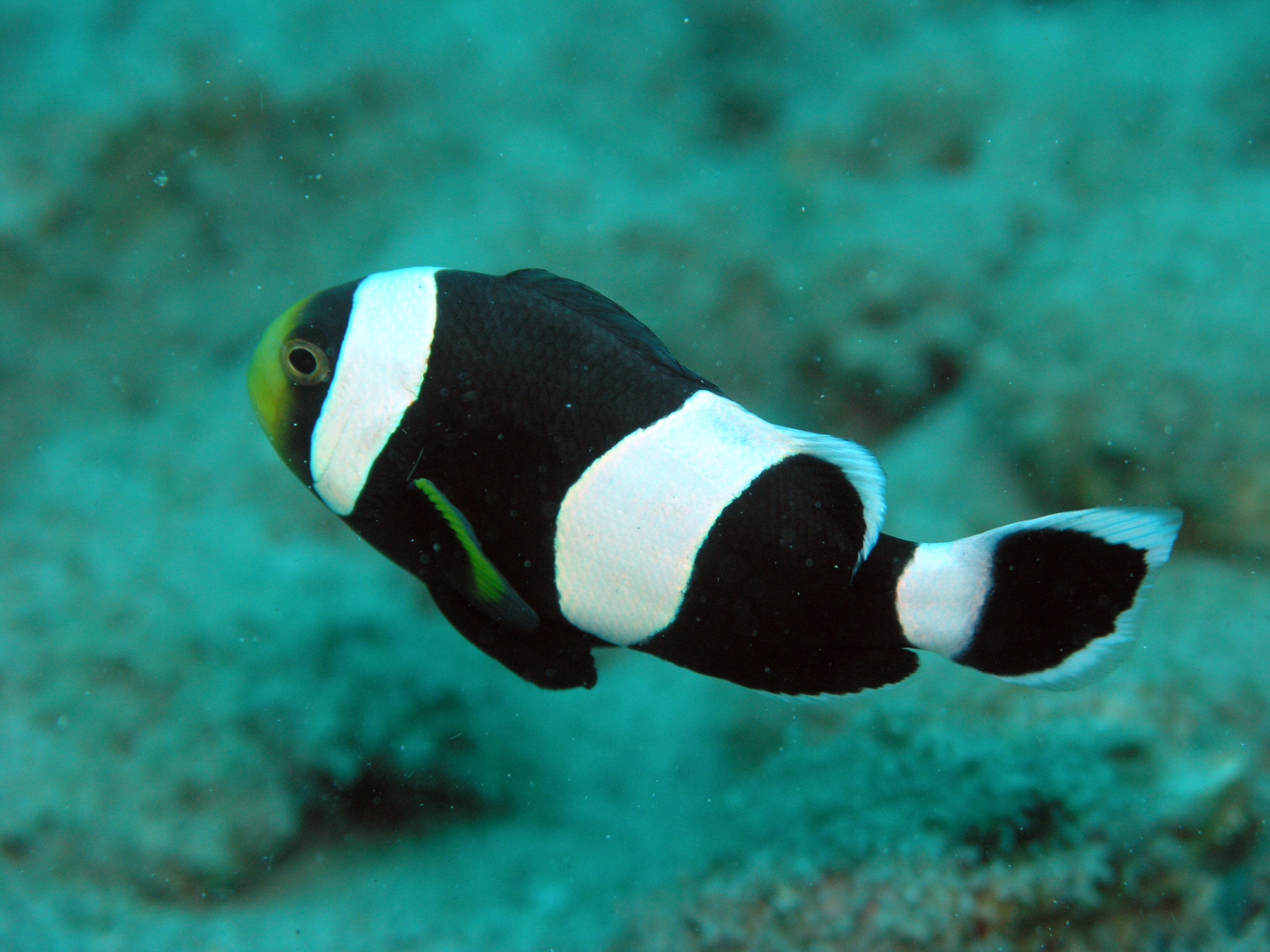 Image of an anemonefish. Identified as Amphiprion polymnus. Taken at Tasik Ria House reef, North Sulawesi, Indonesia.